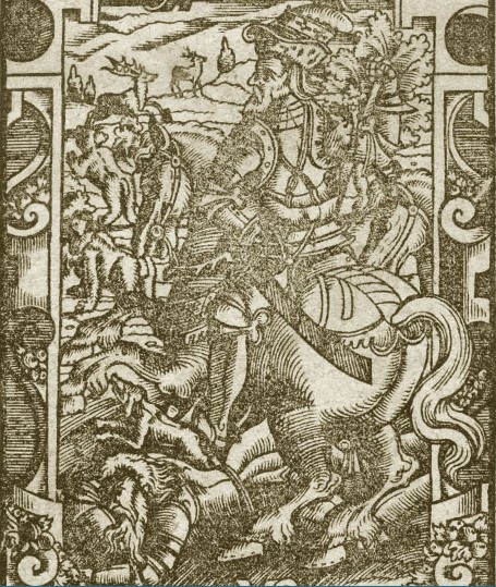 Treniota, Grand Duke of Lithuania